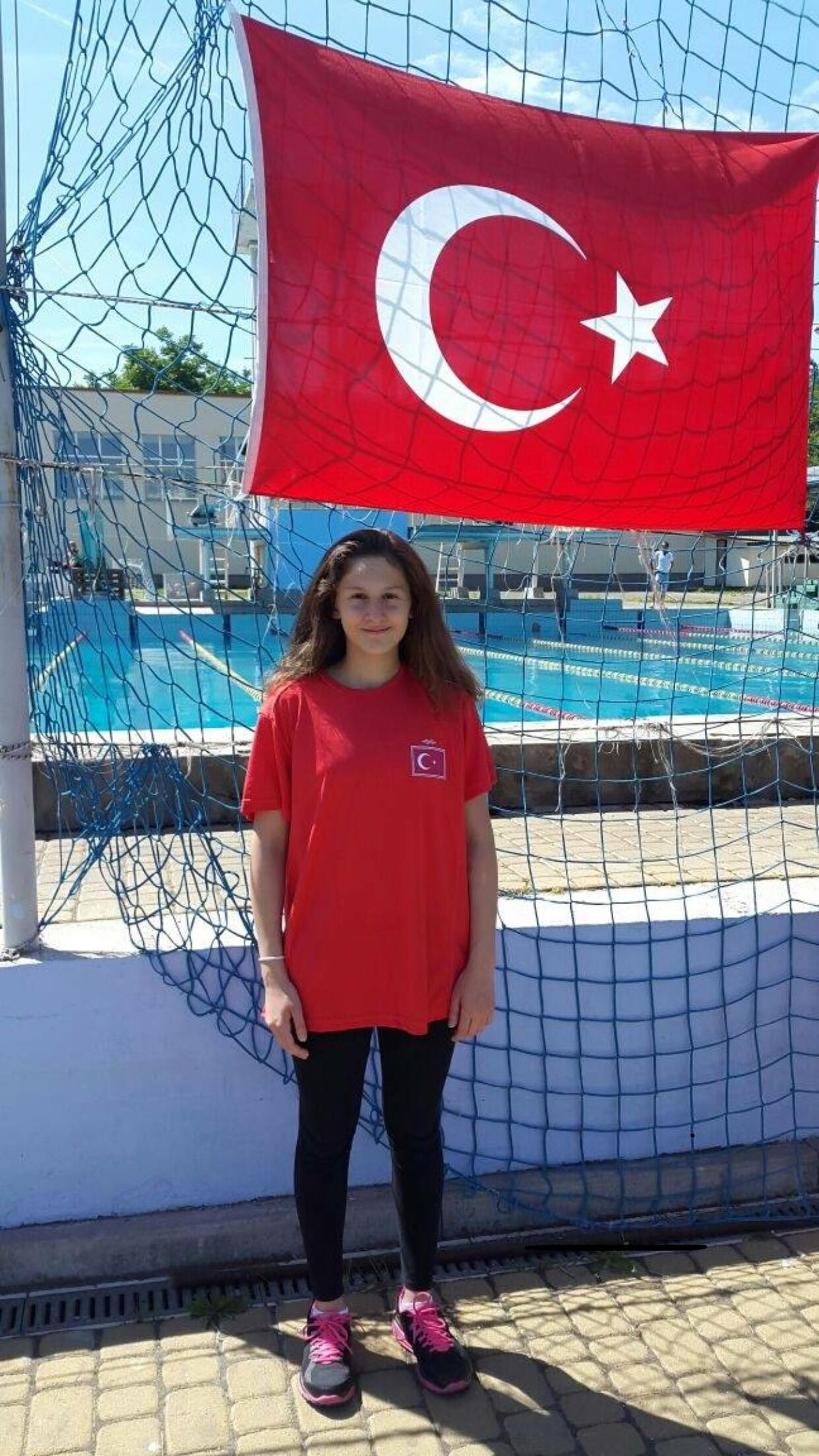 Turkish swimmer Beril Böcekler